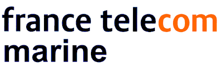 FT Marine logo